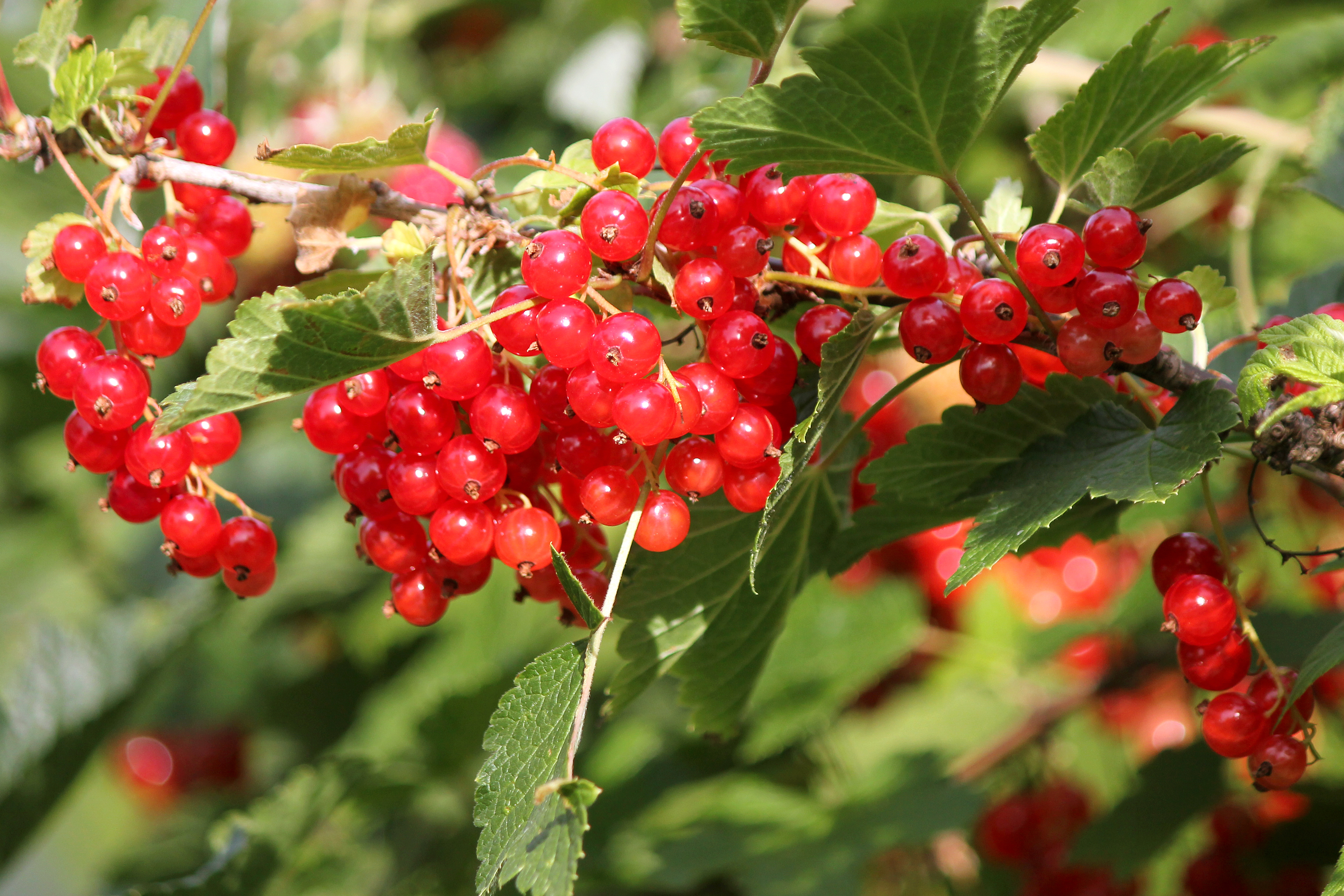 Redcurrant (Ribes rubrum)